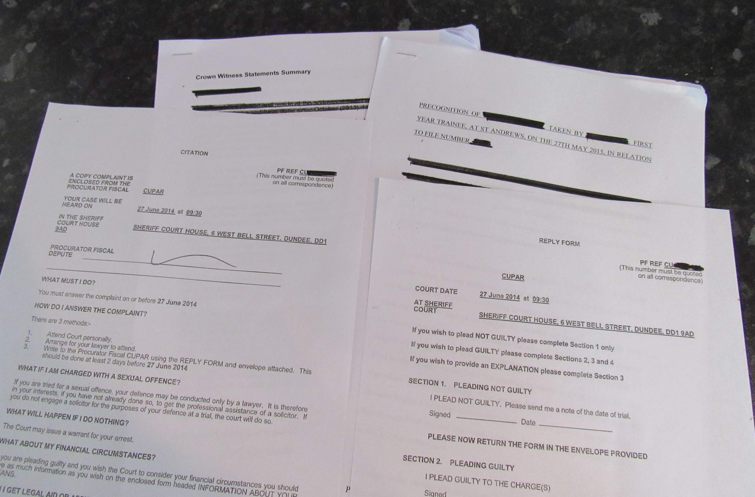 Photo of redacted Citation document, Crown Witness Statements, Precognition Interview report provided to accused by Alastair Cook.